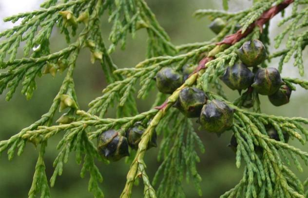 Cupressus nootkatensis: Cones and foliage